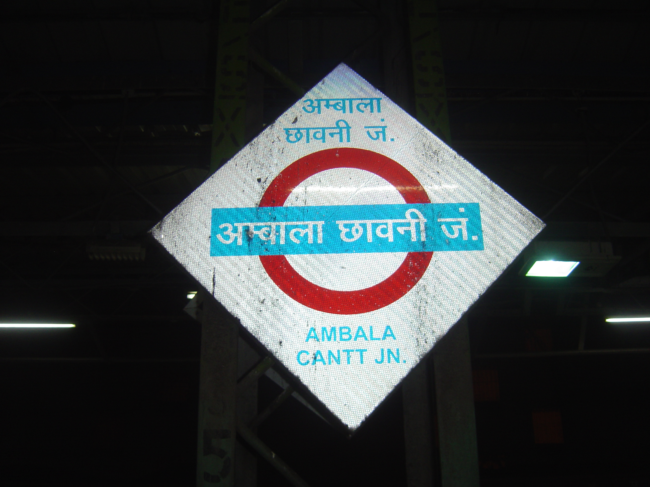 Ambala Cantt Junction - platformboard